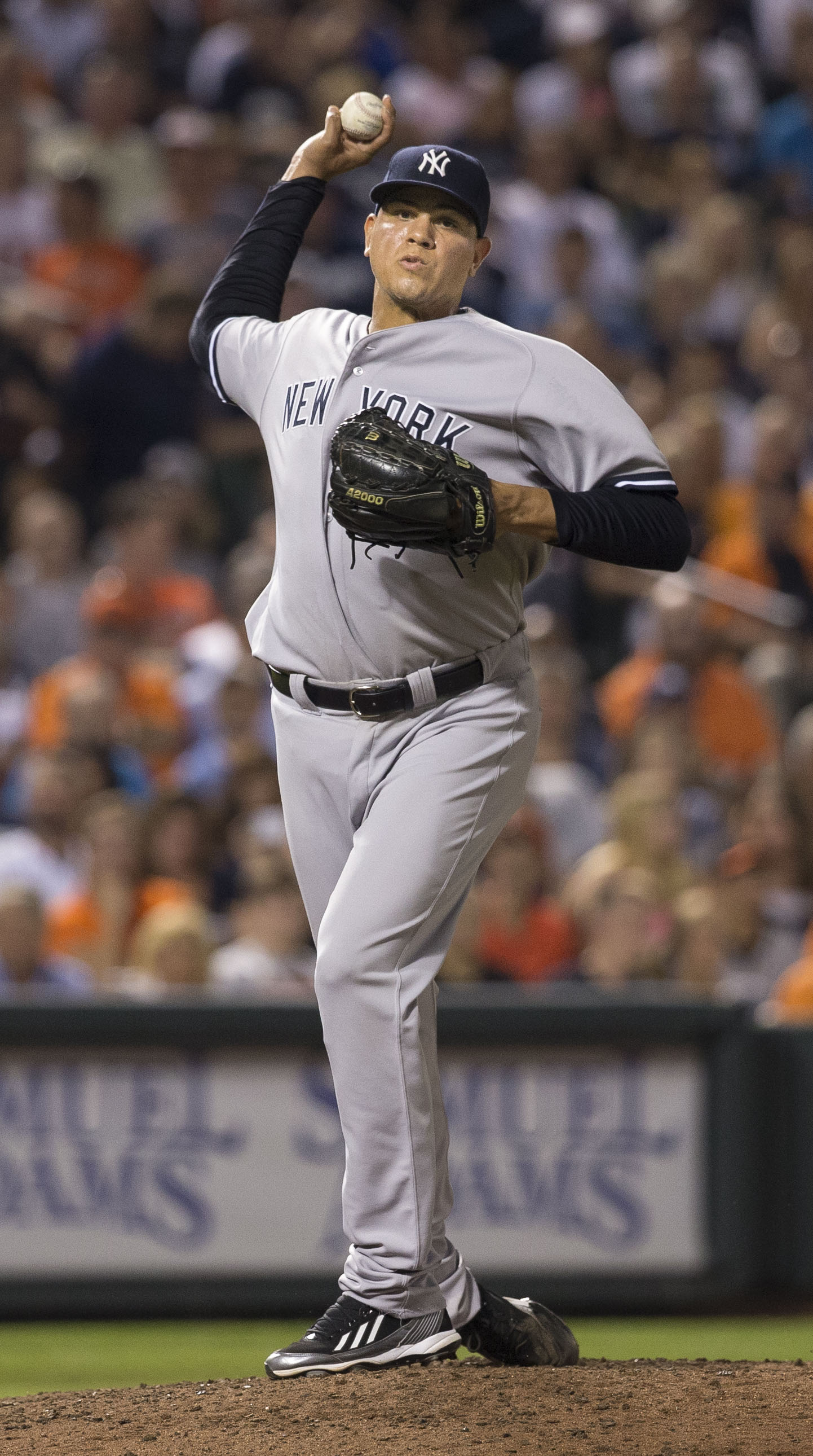 Dellin Betances of the New York Yankees during a game against the Baltimore Orioles at Camden Yards in Baltimore, MD on July 11, 2014